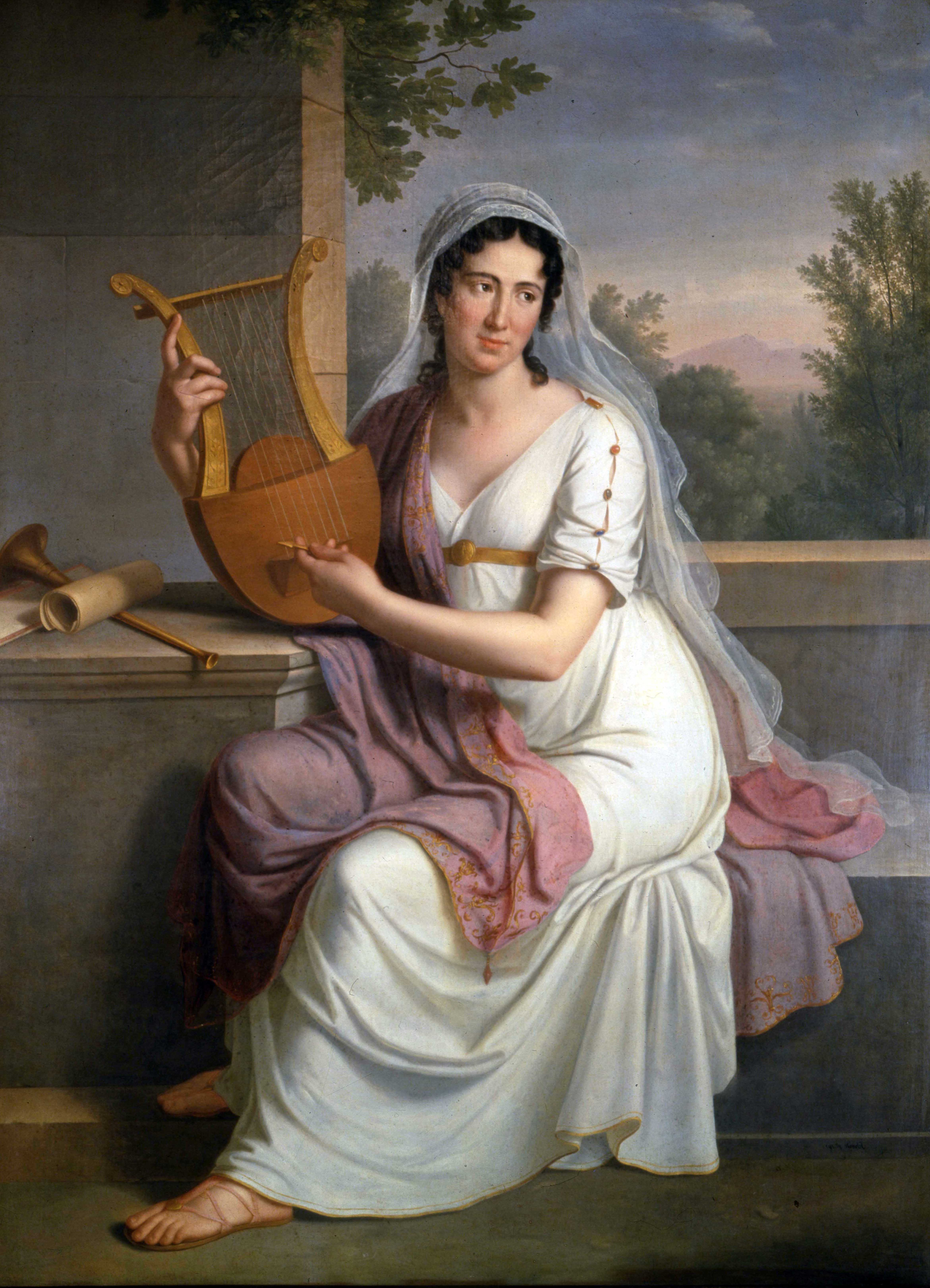 1817 portrait of Isabella Colbran in Saffo